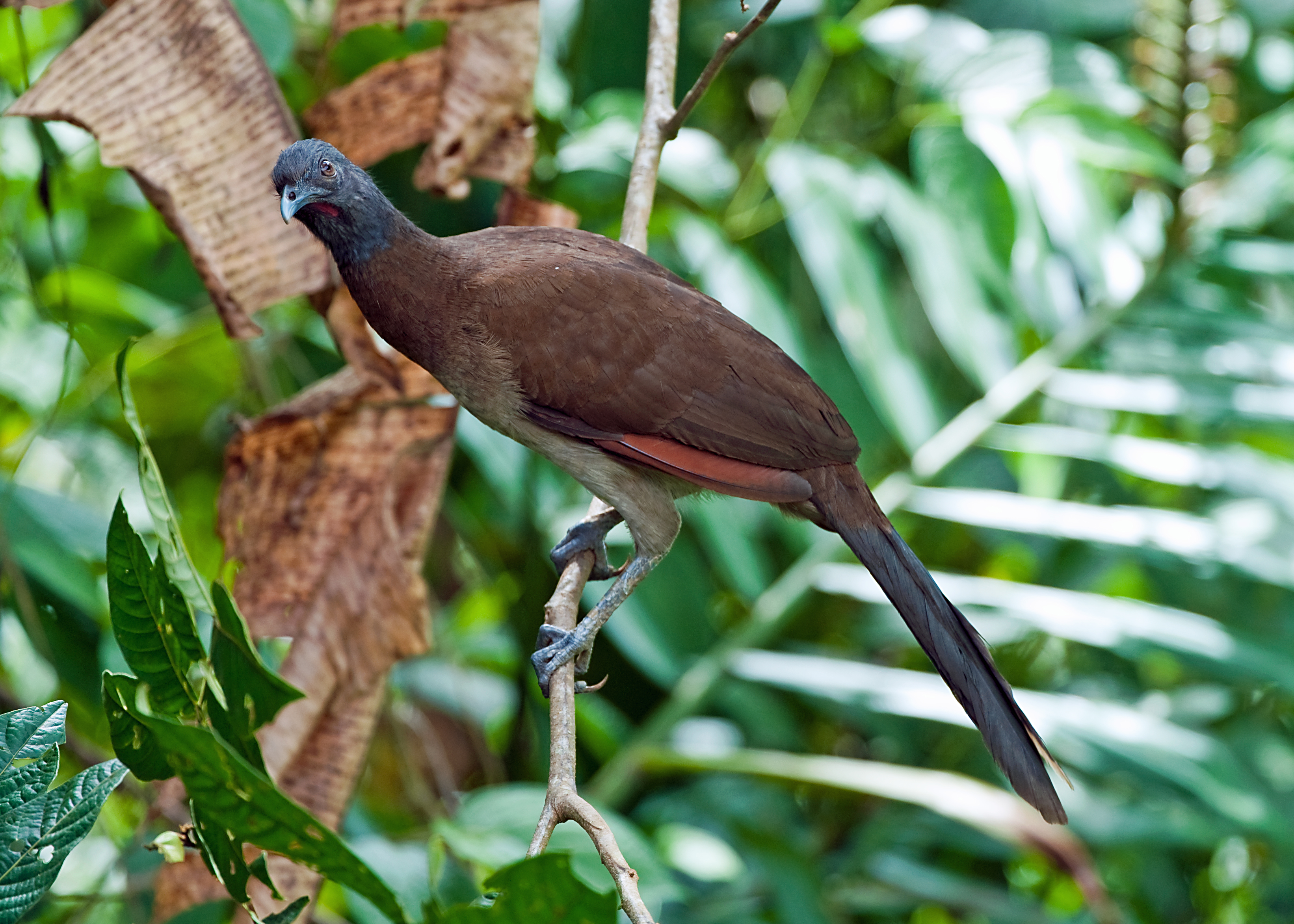 A Grey-headed Chachalaca near Rancho Naturalista, Cordillera de Talamanca, Costa Rica.